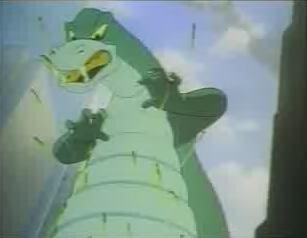 Screenshot from the animated short The Arctic Giant.